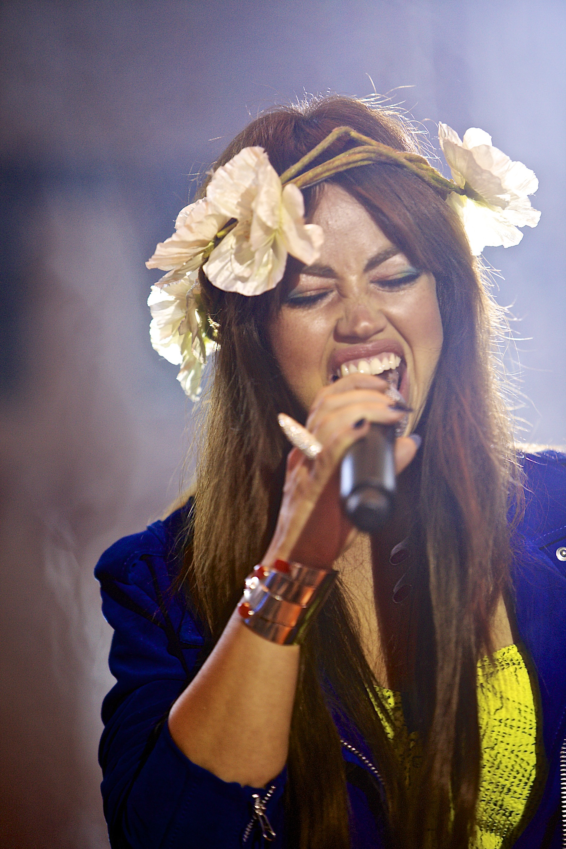 Aura Dione at "Kufstein Unlimited 2012"